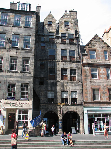 Picture of Gladstone's Land on Edinburgh's Royal Mile